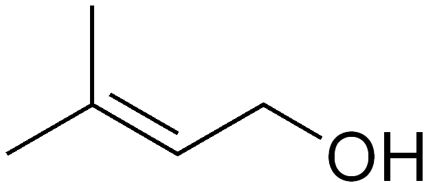 chemical structure of prenol (3-methyl-2-buten-1-ol)